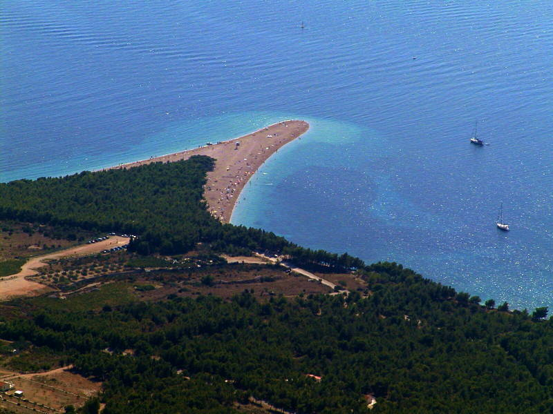 Golden Horn (Croatia).